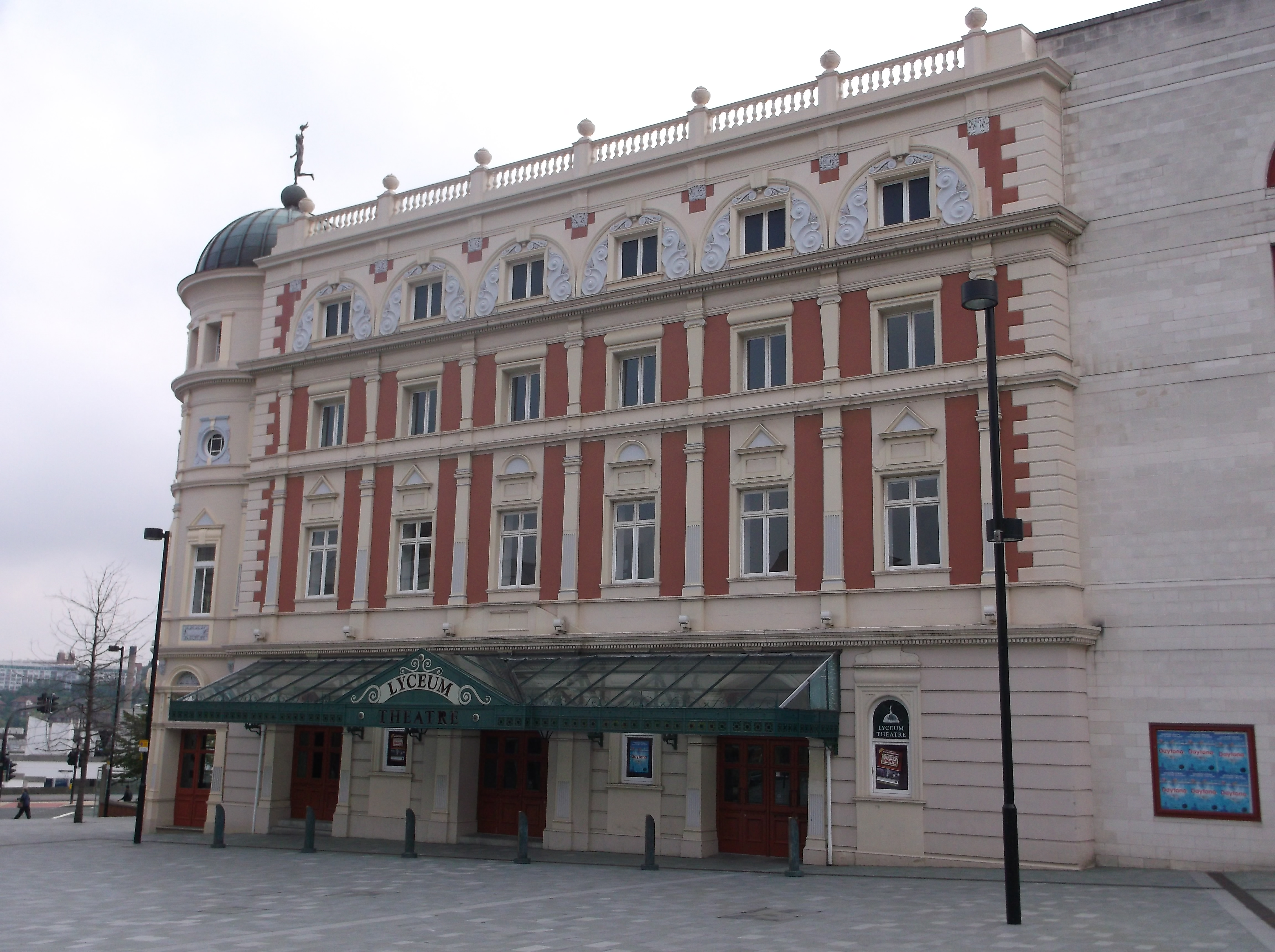 Sheffield's Lyceum Theatre. One of the city centre's more distinctive buildings, especially with its pink and cream colour scheme.